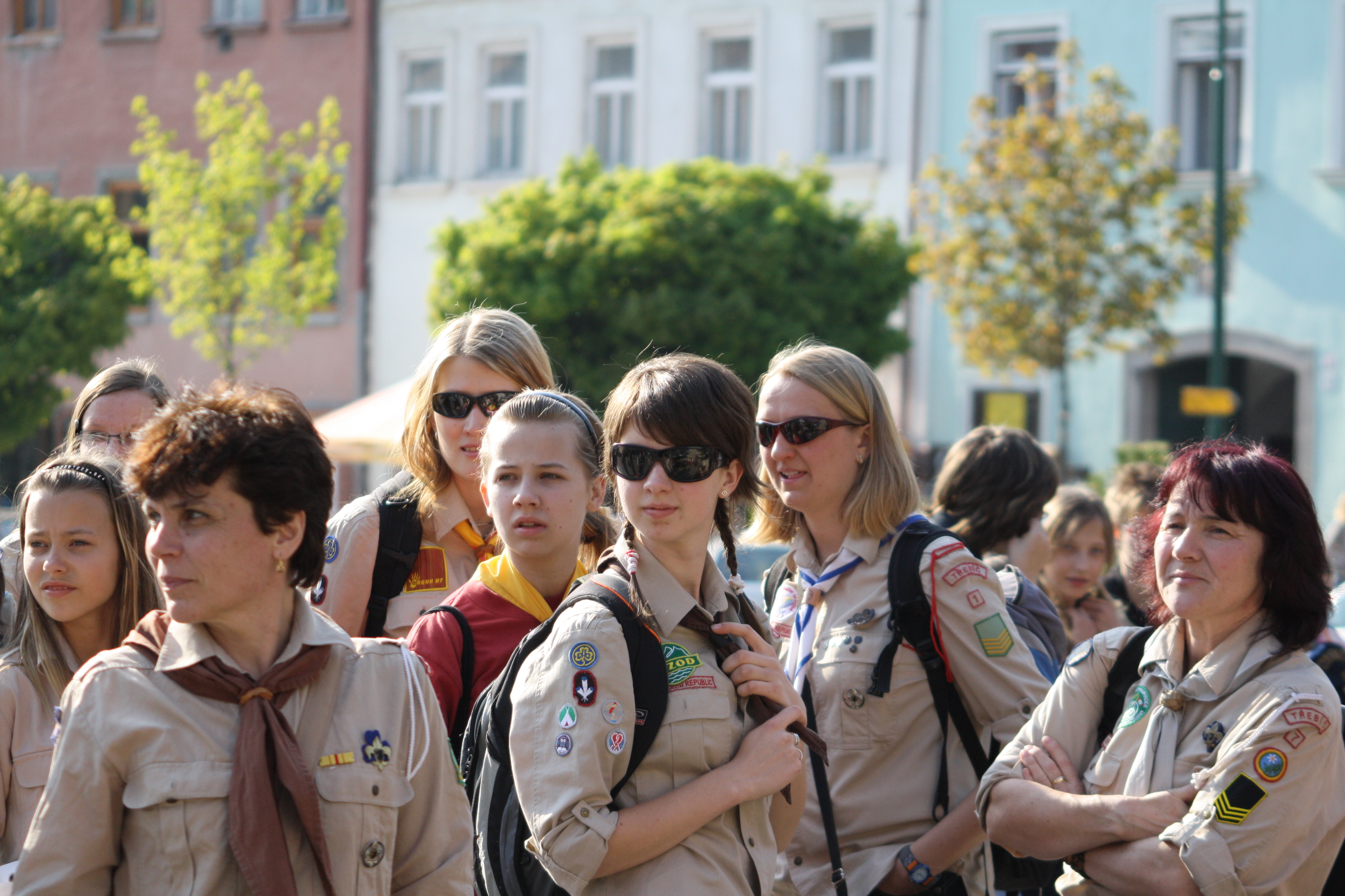 Girl Scouts preparation to Day in uniforms at Charles Square in Třebíč, Czech Republic.